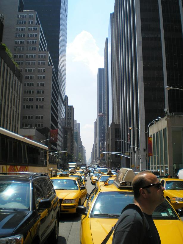 The author of this image is me, David Shankbone. Looking down Sixth Avenue (Avenue of the Americas) from 48th Street.